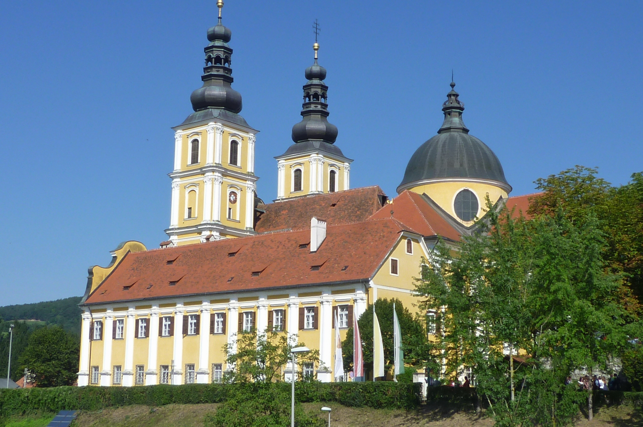 Basilika Mariae Geburt